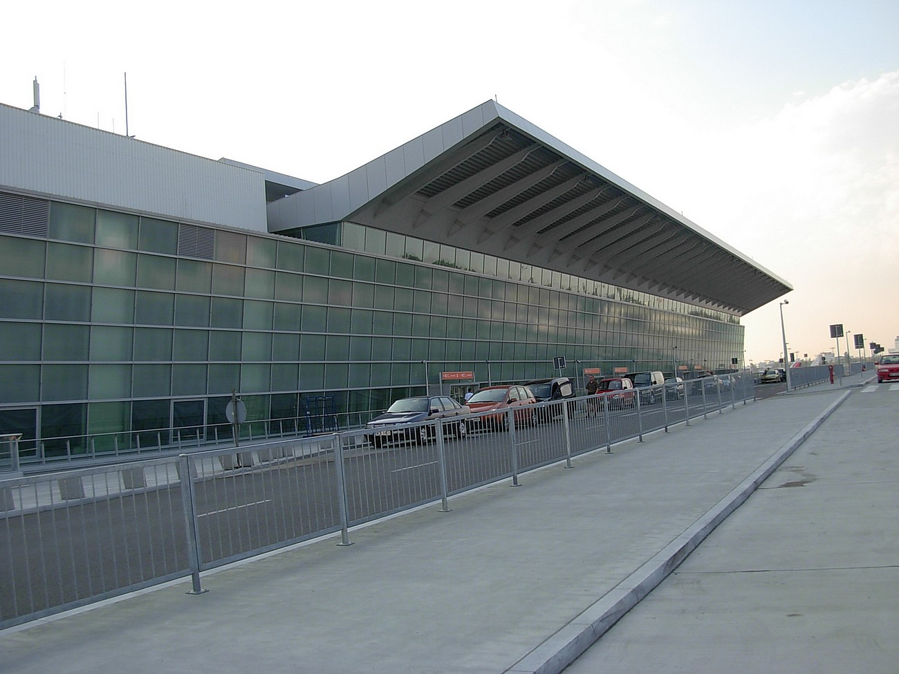 Okęcie Airport in Warsaw (WAW), View of terminal 2